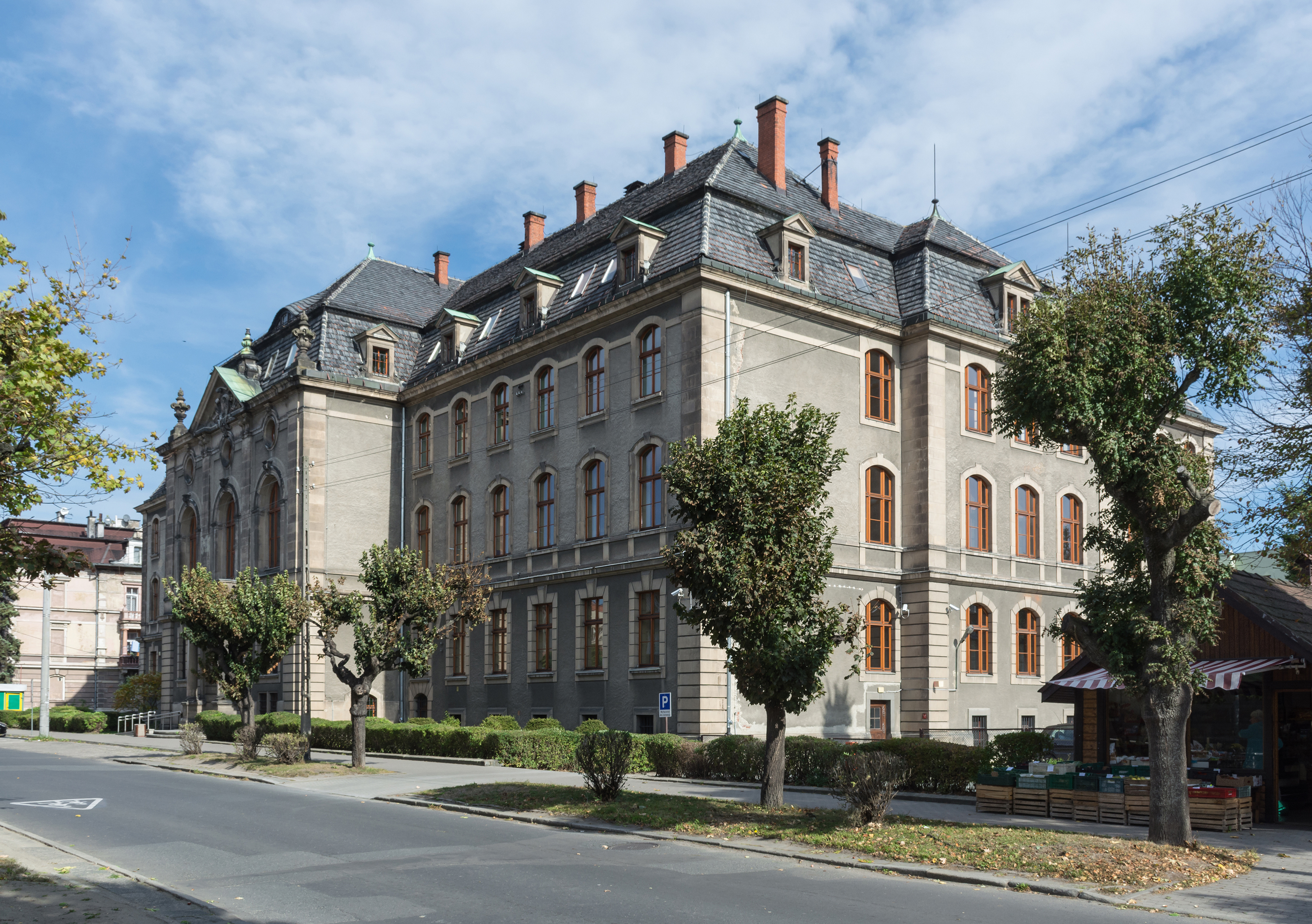 Provincial court in Kłodzko